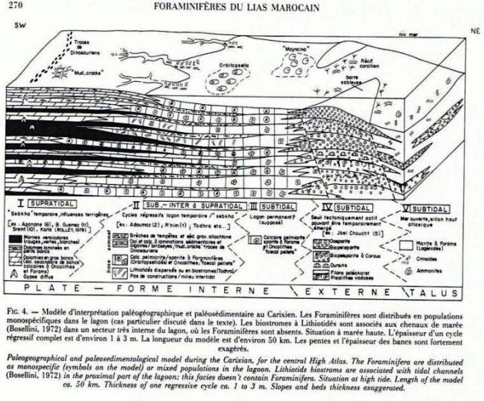 Ænglisc: Septfontaine M. (1985): Depositional environments and associated foraminifera (lituolids) in the middle liassic carbonate platform of Morocco.- Rev. de Micropal. 28/4, 265-289. Abstract: The middle liassic inner platform carbonate deposits of Morocco are characterised by a succession of metric regressive sedimentary cycles. An autochtonous unicellular microfauna (foraminifera, orbitopsellids s. l. and hauraniids) and macrofauna (mollusca, lithiotid etc.) are associated with the lower part of the cycles, subtidal lagoon; whereas an allochtonous assemblage of orbitopsellids s. l ., displaced on the supratidal zone by high energy waves or tidal currents or tempestites is present on top of the cycles. The bioclastic and reef deposits of the outer platform do not contain orbitopsellids s.l. The cycles are interpreted as autocyclic, resulting from succesive filling of the lagoon by carbonate mud in a context of progressive subsidence. The hypothesis of an astronomic control (precession etc) does not fit with field observations.